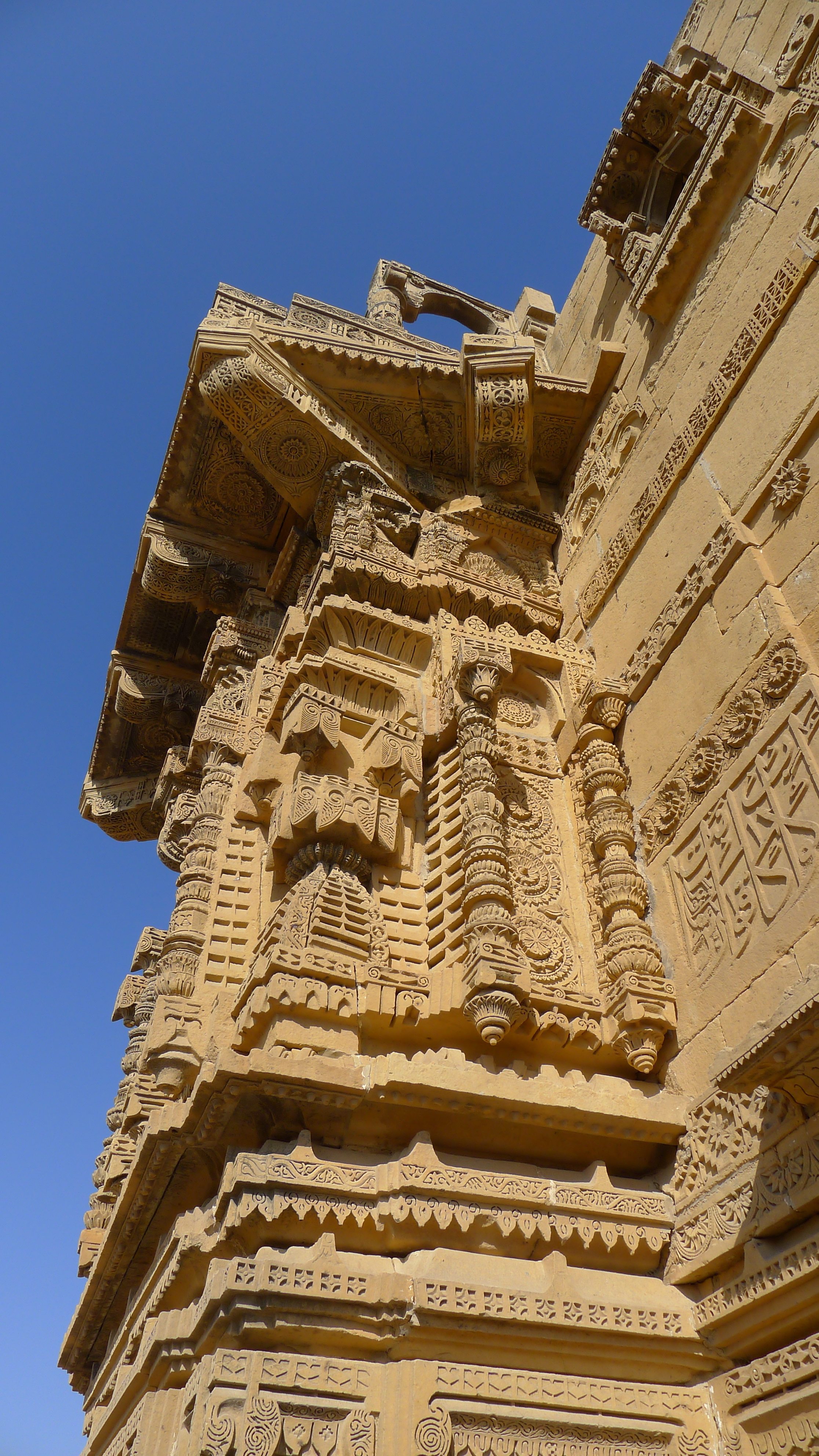 Elaborate stone carving in early Islamic Samma style